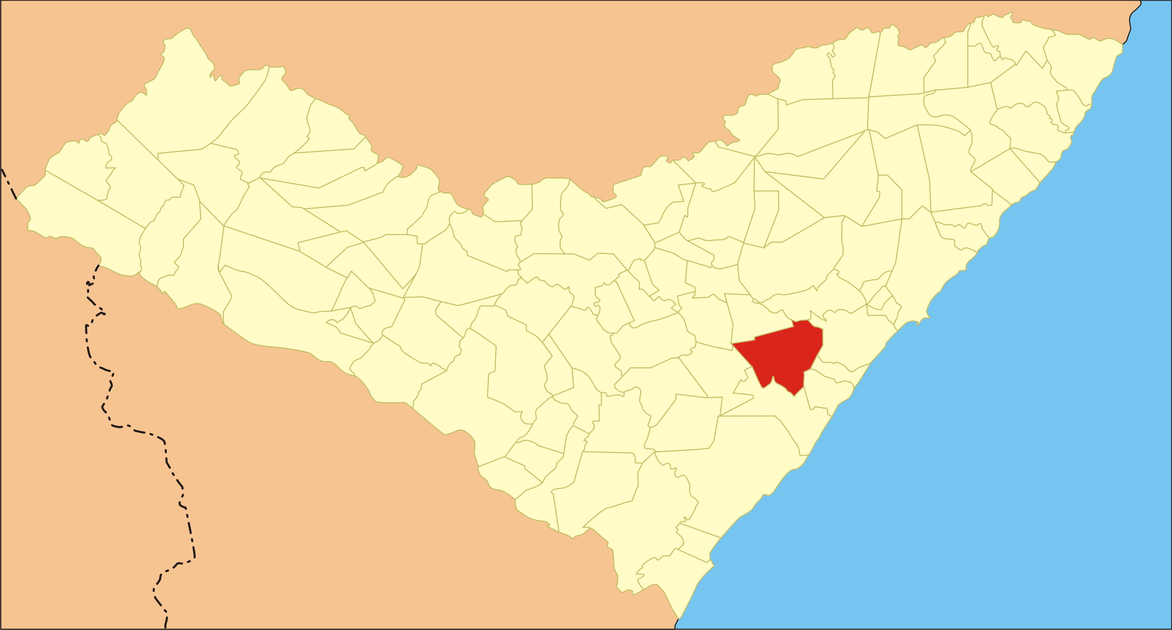 City localization in Alagoas